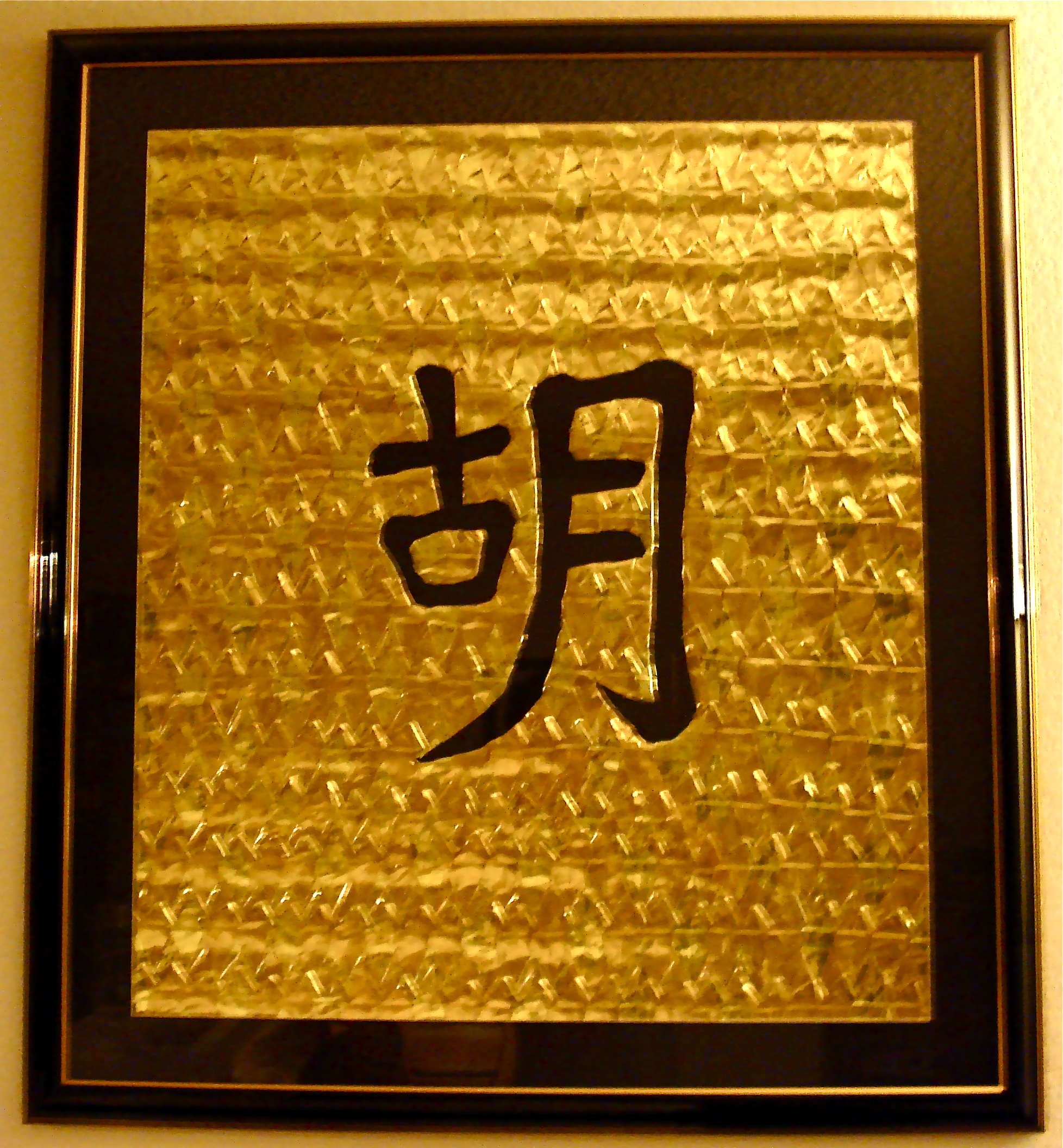 Origami cranes folded to create the surname Hu (胡) in Chinese.